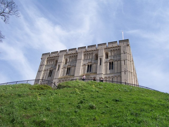 Castle Mound - Norwich Impressive pile.